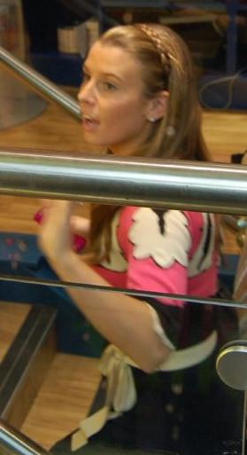 Coleen Rooney, wife of professional footballer Wayne Rooney